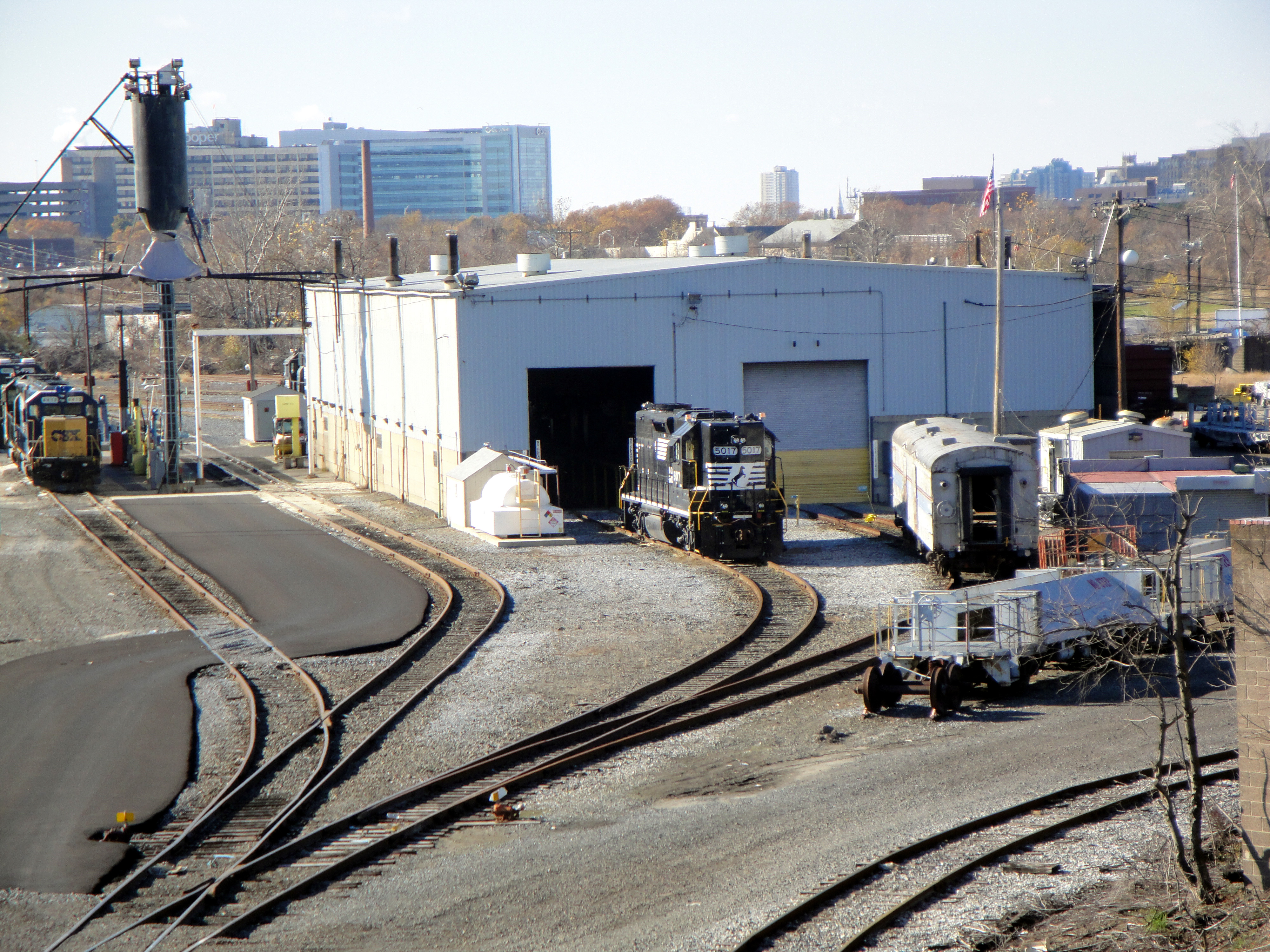 View of diesel locomotive service area and engine house at Pavonia Yard, Camden, New Jersey, with NS locomotive no. 5017 (model GP38-2).